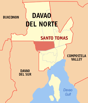 Map of the Davao del Norte showing the location of Santo Tomas